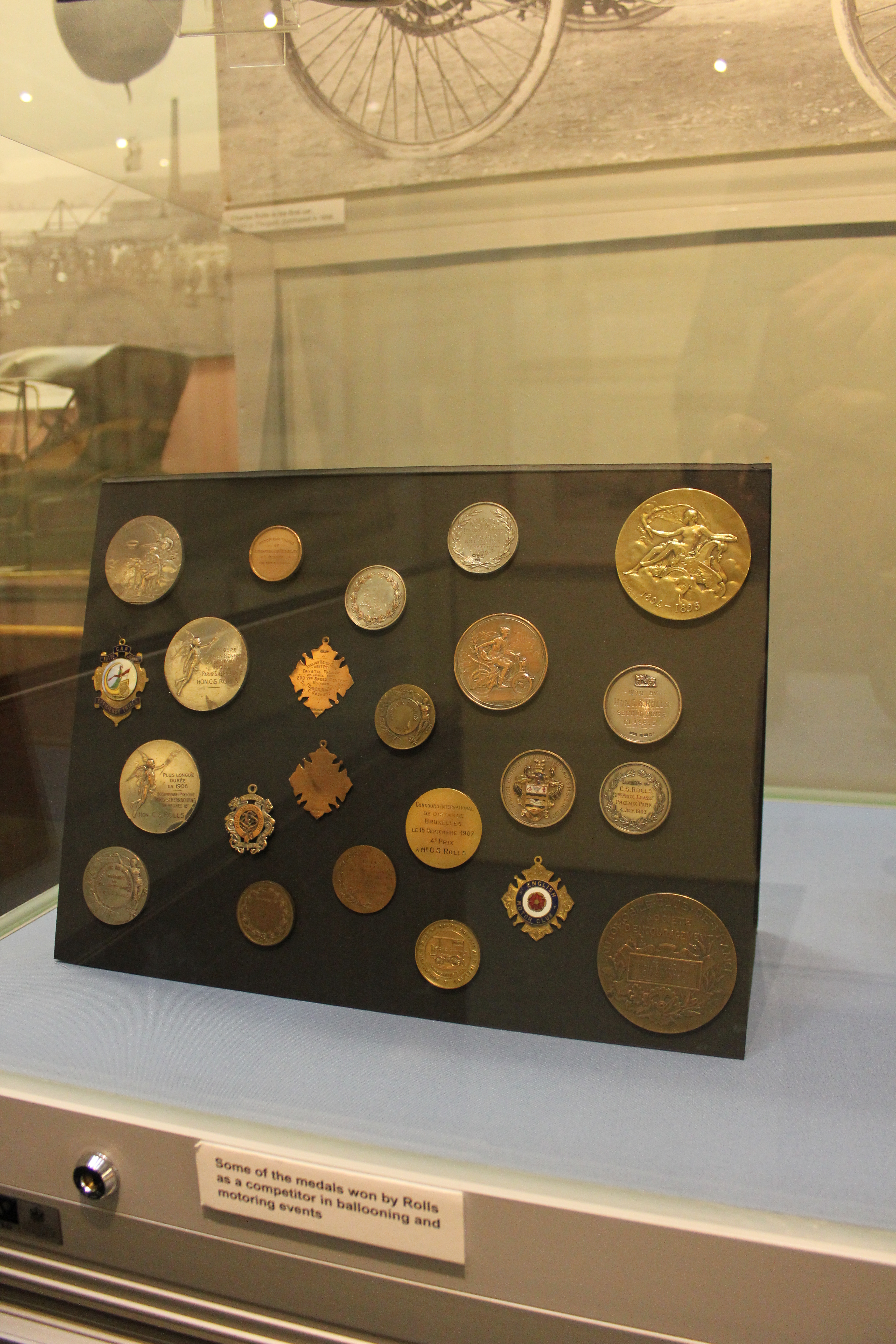 Charles Rolls driving medal at Monmouth Museum, Wales